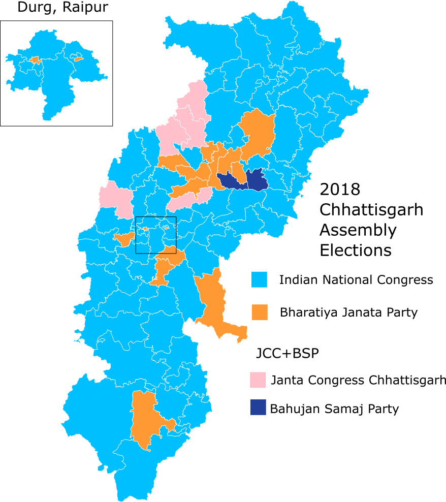 Map showing constituencies won by parties